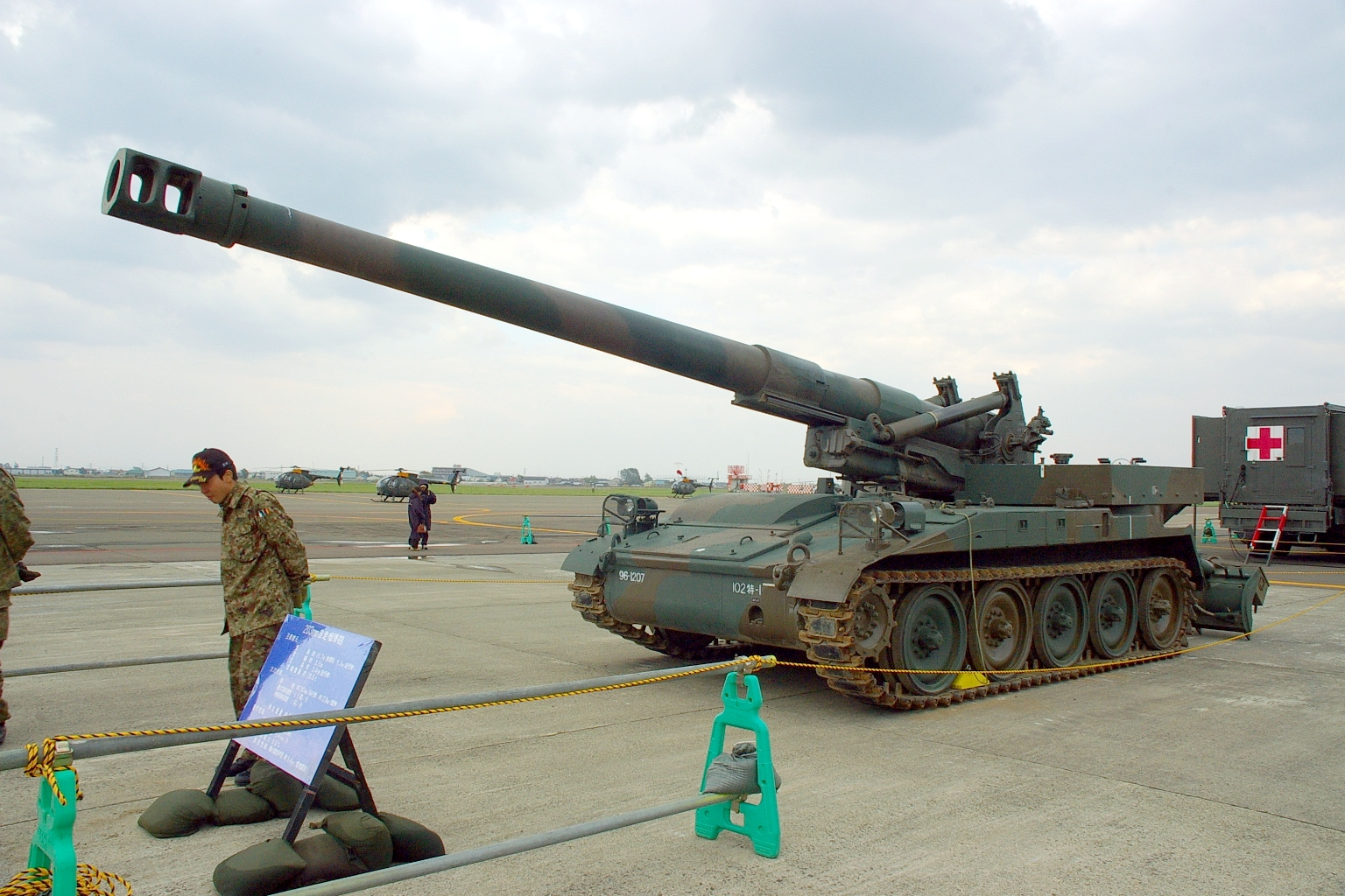 203mm Self-Propelled Howitzer M110A2, JGSDF 102nd field artillery battalion.